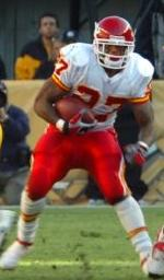 Larry Johnson of the Kansas City Chiefs during an NFL game in 2006.